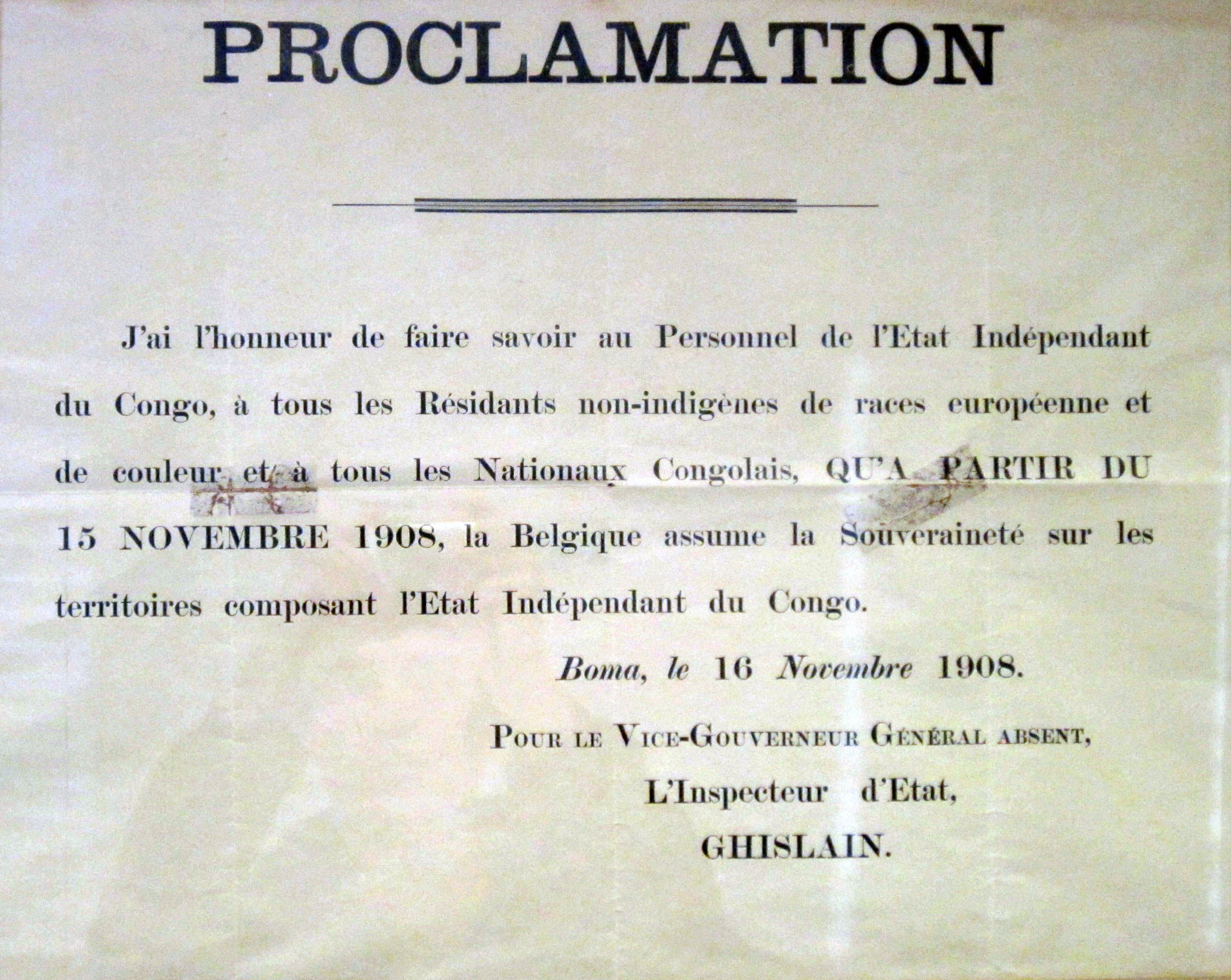 PROCLAMATION I have the honor to inform the staff of the Congo Independent State; to all non-indigenous Residents of European and colored races and to all Congolese Nationals, WHEREAS from November 15, 1908, Belgium assumes Sovereignty over the territories constituting the Independent State of Congo. Boma, November 16, 1908. For the absent Deputy Governor General, The State Inspector, GHISLAIN.